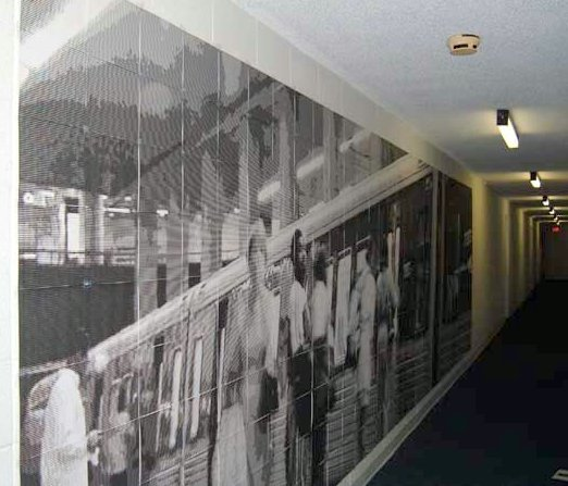 Tiled printing example showing a MARTA station (source: Image:MARTA - N3 Station.jpg)Created with The Rasterbator